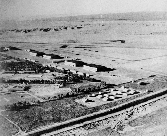 Habbaniya airfield, looking south across the plateau on which Iraqi troops deployed in the Anglo-Iraqi War; Lake Habbaniya is in the distance.